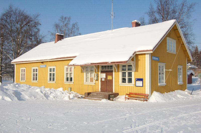 Paltamo railway station, Paltamo, Finland